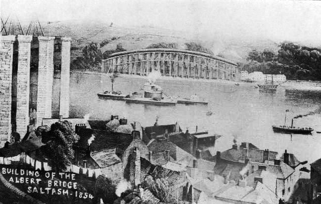 The construction of the Cornwall span and centre pier of the Royal Albert Bridge at St Budeaux, Devon, England.